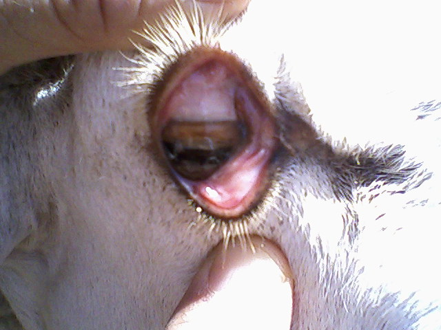 Veterinary checks appointed lamb